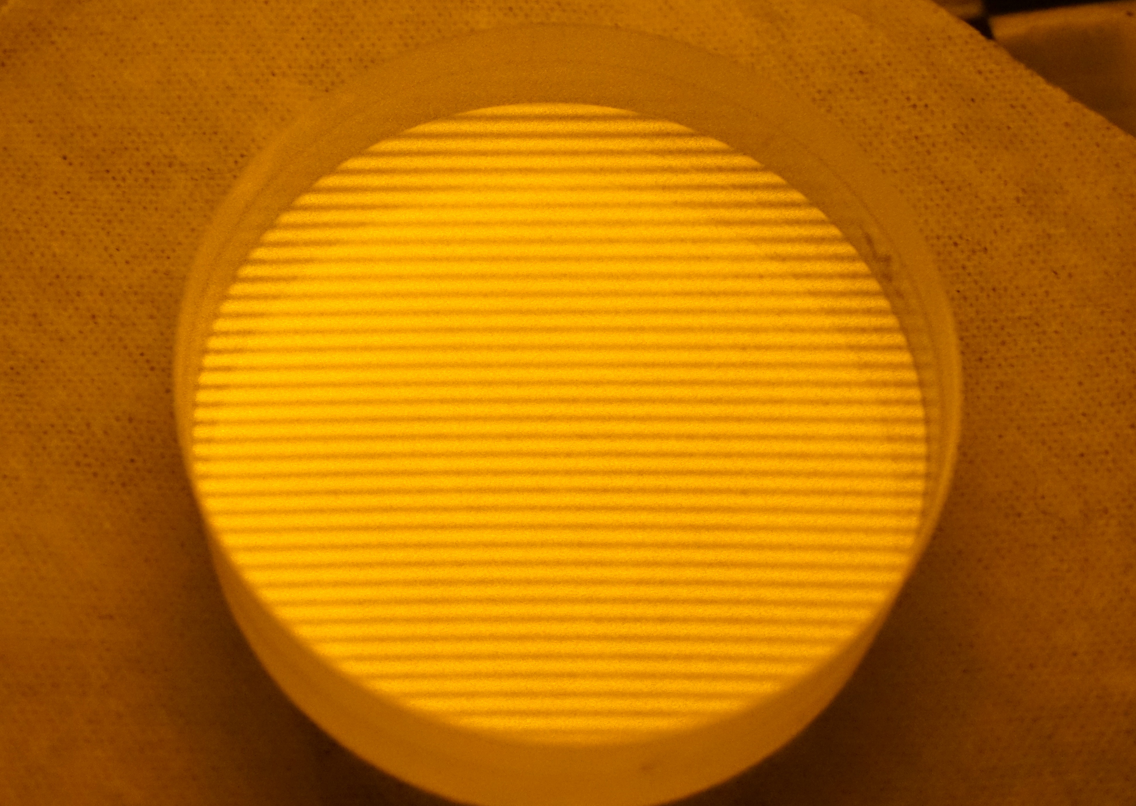 An optical flat test using two λ/10 flats, at 589 nanometers. The straight fringes indicate that both surfaces are perfectly flat to one tenth of the wavelength of the light.